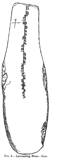 From Goudie, Gilbert (11 December 1876) "On Two Monumental Stones with Ogham Inscriptions Recently Discovered in Shetland" (pdf) Proceedings of the Society of Antiquaries of Scotland. 12 p. 25. Archaeology Data Service. Retrieved 12 July 2009.